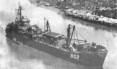 Ex-USS Satyr (ARL-23) in South Vietnamese service as RVNS Vinh Long (HQ 802). US Navy photo, date unknown.